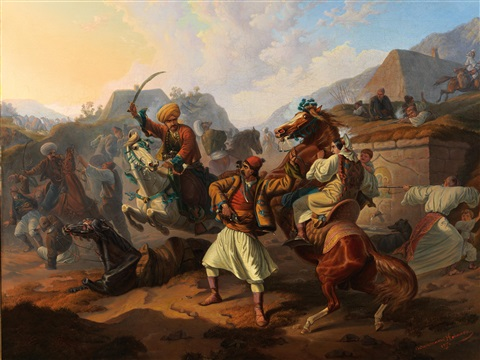 German painter B. Bachmann-Hohmann oil painting called "Fighting between Serbs and Turks" or "Episode from the Serbian Uprising", created in 1847. Oil on canvas 91.5 x 123.5 cm. (36 x 48.6 in.)